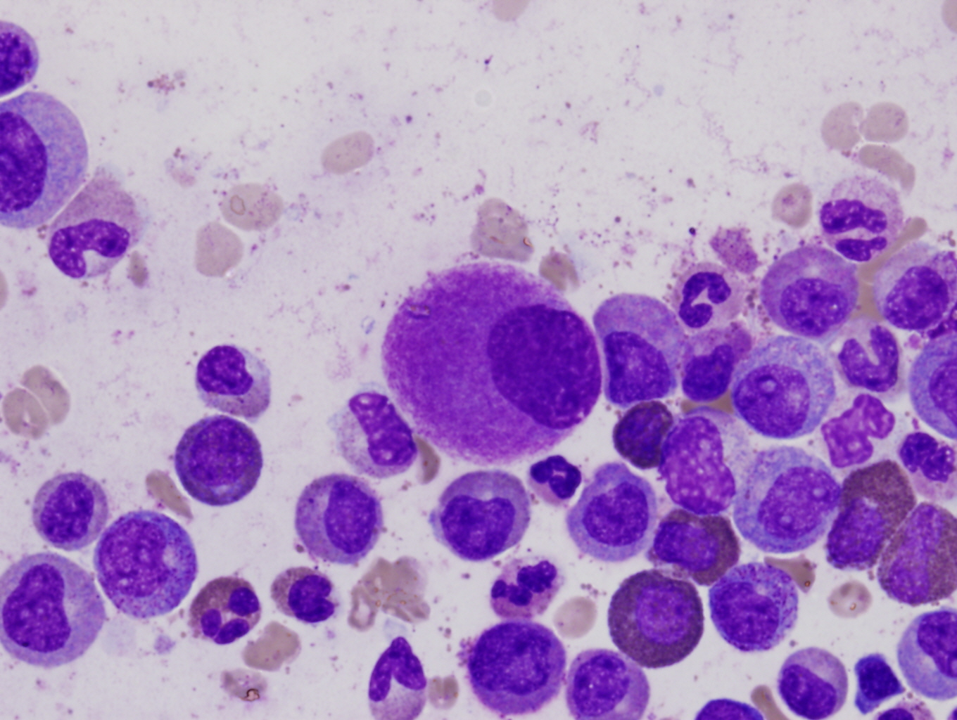 A small, hypolobated megakaryocyte in a bone marrow aspirate, typical of chronic myelogenous leukemia.